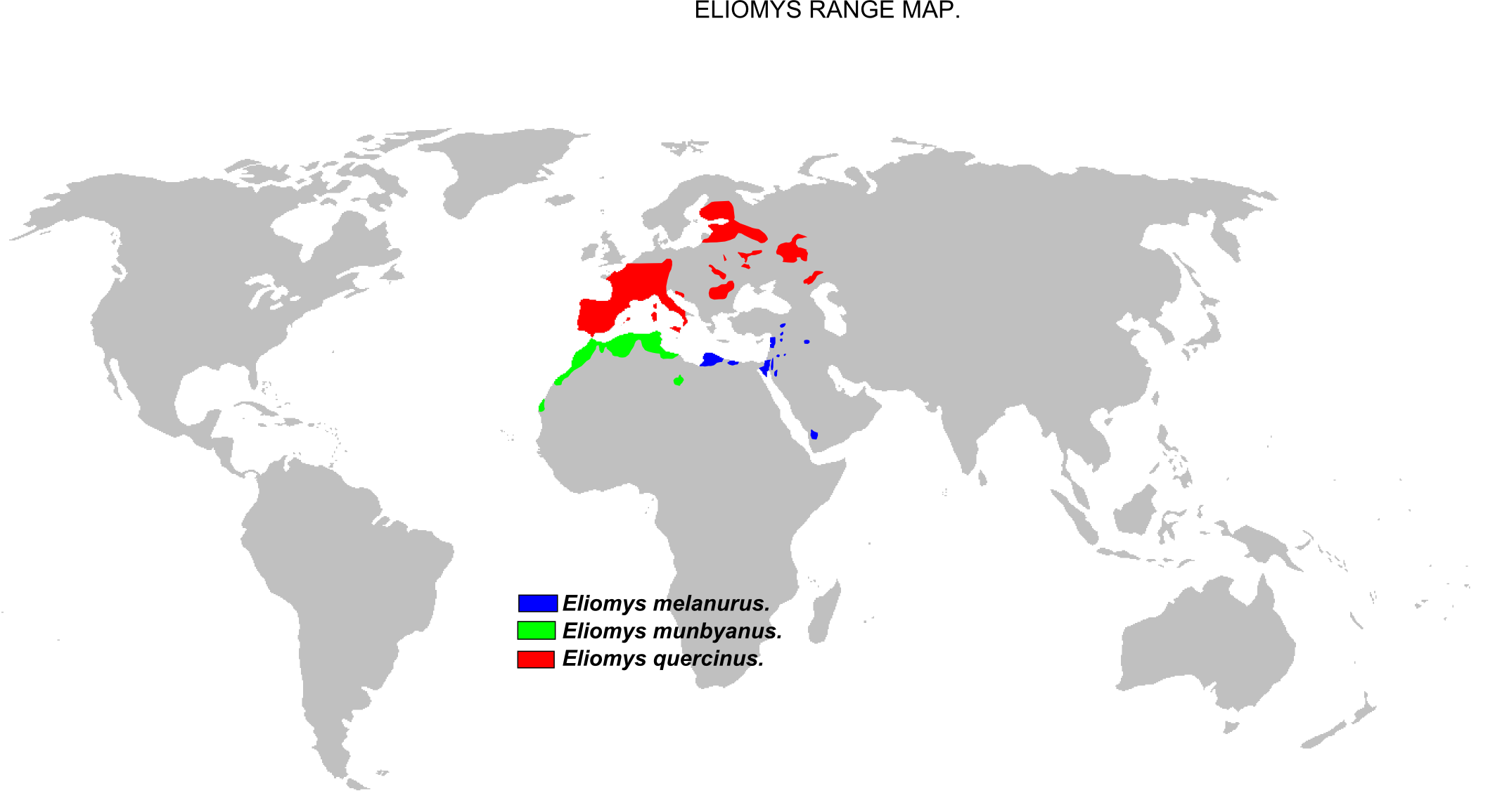 Eliomys genus range map (english).